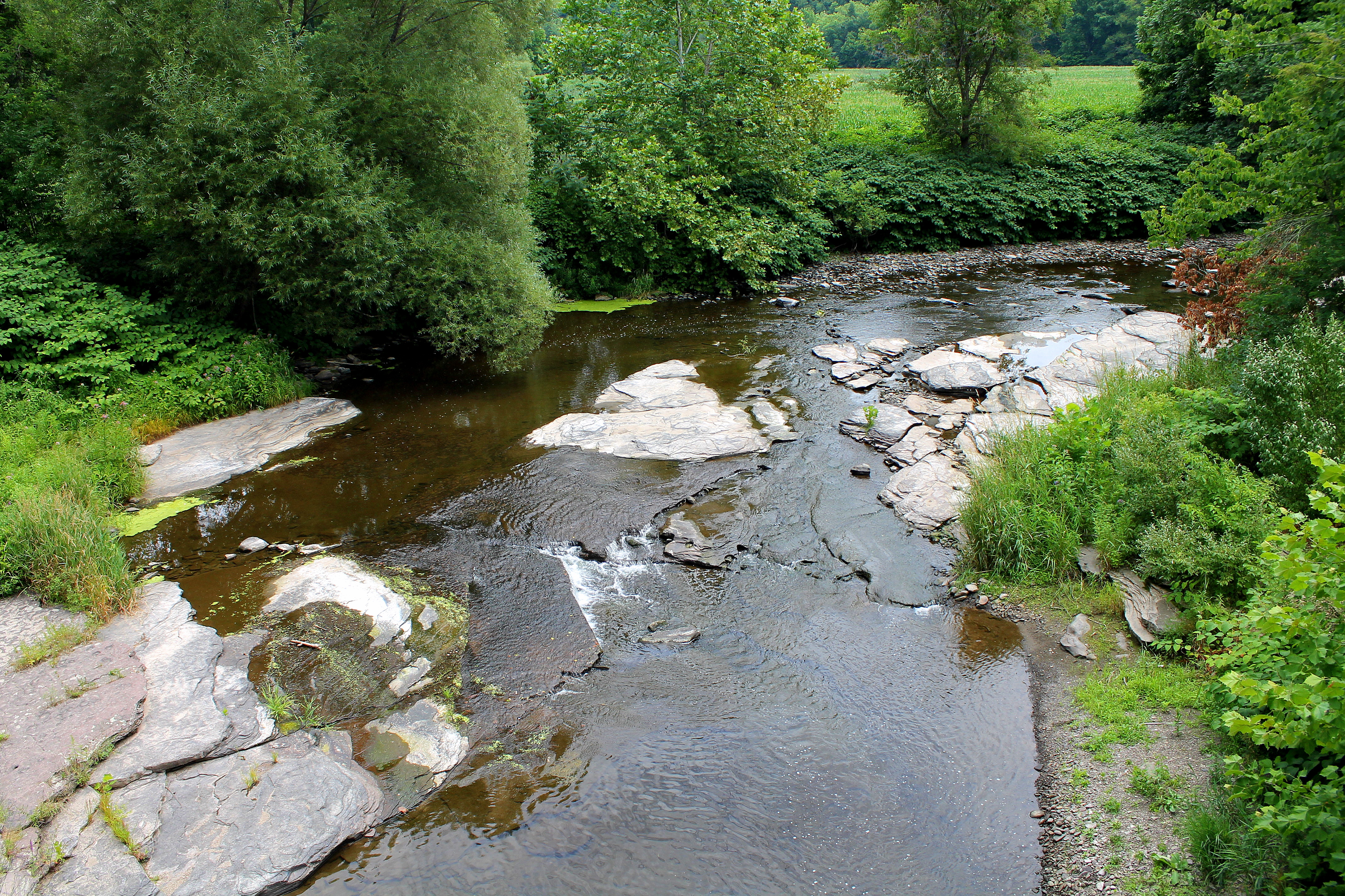 South Branch Tunkhannock Creek looking upstream above Little Rocky Glen in Clinton Township, Wyoming County, Pennsylvania.